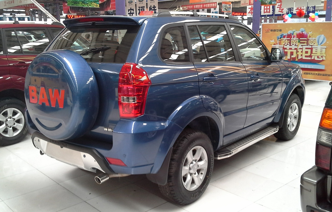 BAW Yusheng 007 photographed in Chengdu, Sichuan province, China.